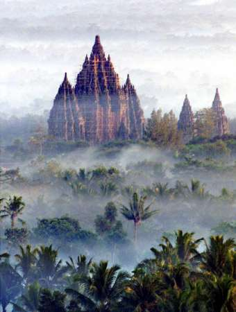 Prambanan temple compound in Java, Indonesia.